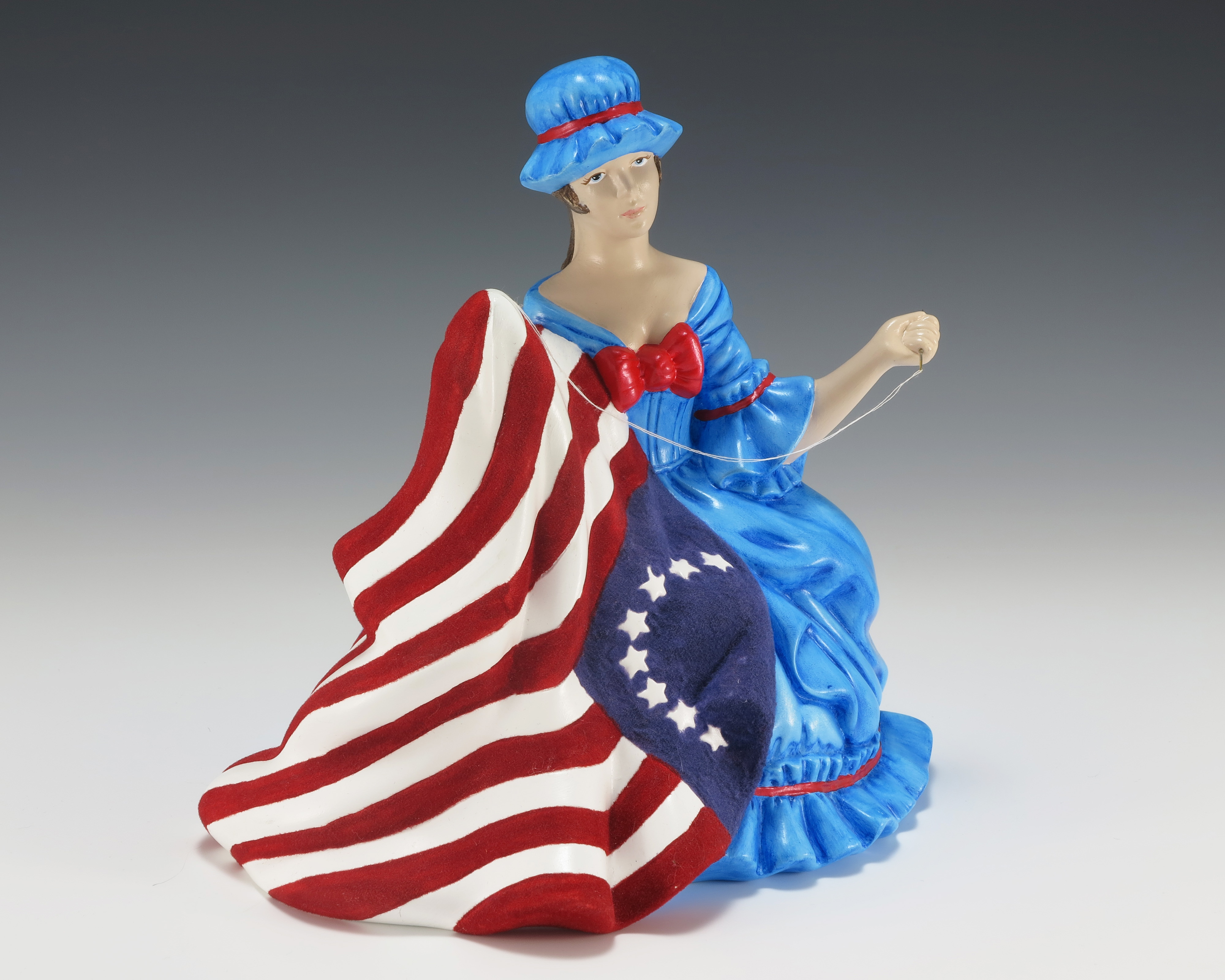 Ceramic figurine of Betsy Ross sewing the American flag made to commemorate the American Bicentennial. It was poured by Ed Crowley and hand painted by his wife. The flag is covered with strips of felt.